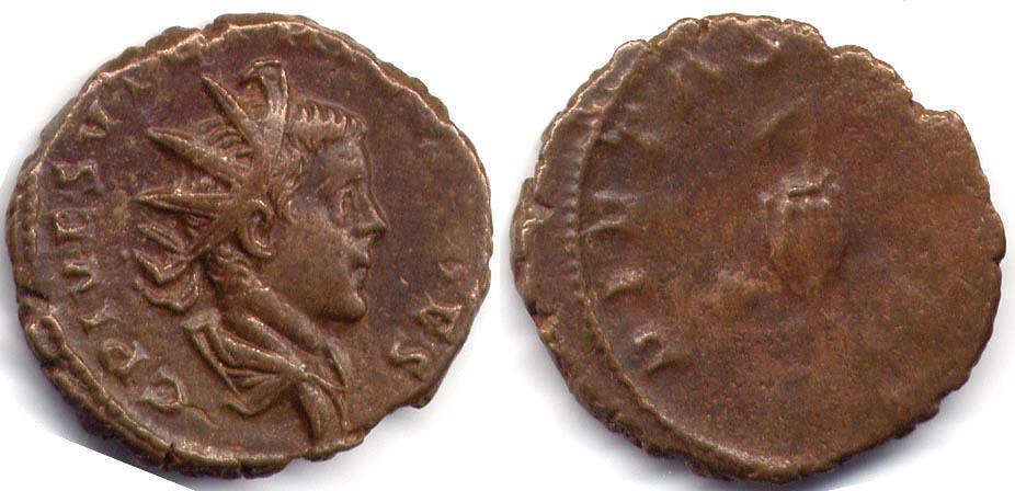 C(aius) P(ius) E(suvius) TETRICUS CAES(ar) PIETAS AVGVSTOR